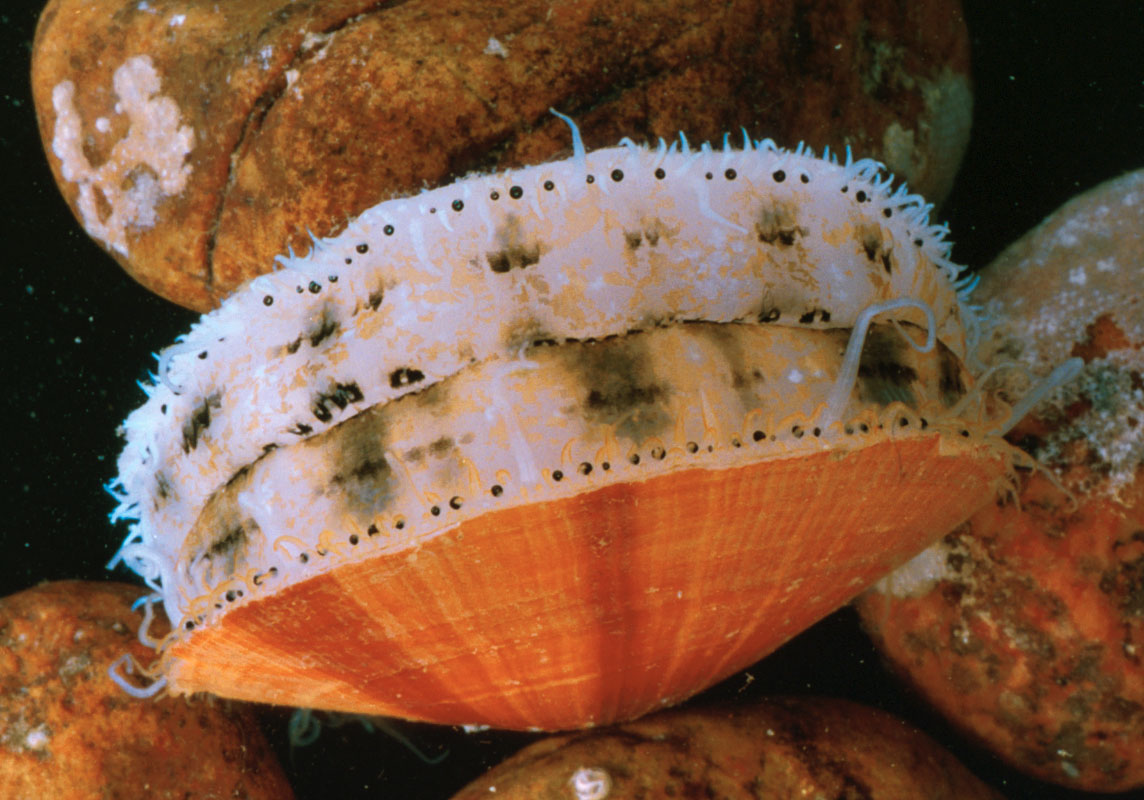 The sea scallop (Placopecten magellanicus) has over 100 blue eyes along the edge of its mantle, with which it senses light intensity. This mollusk has the ability to scoot away from potential danger by flapping the two parts of its shell, like a swimming castenet.